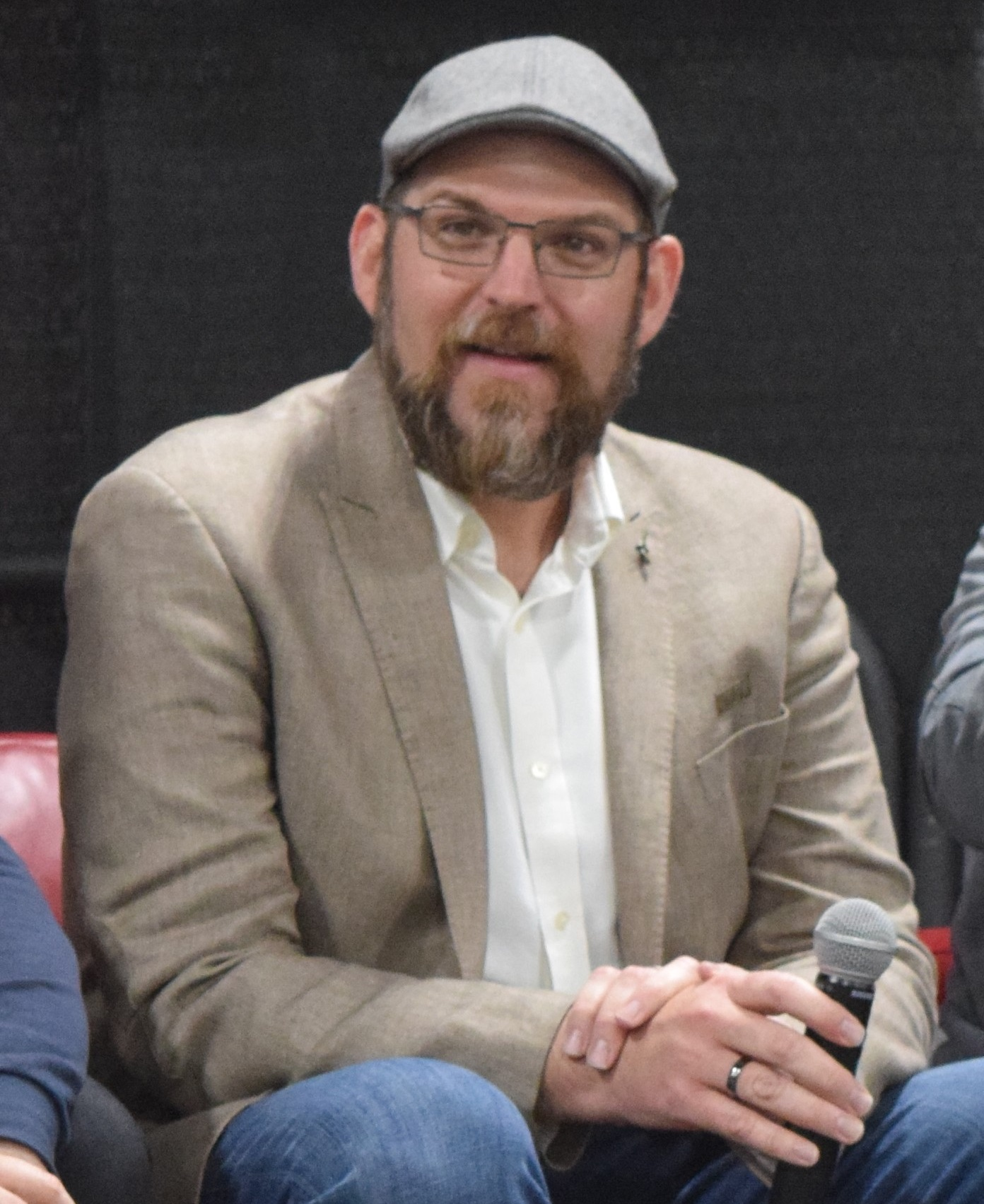 Steve J. Palmer at Great Philadelphia Comic-Con 2019.